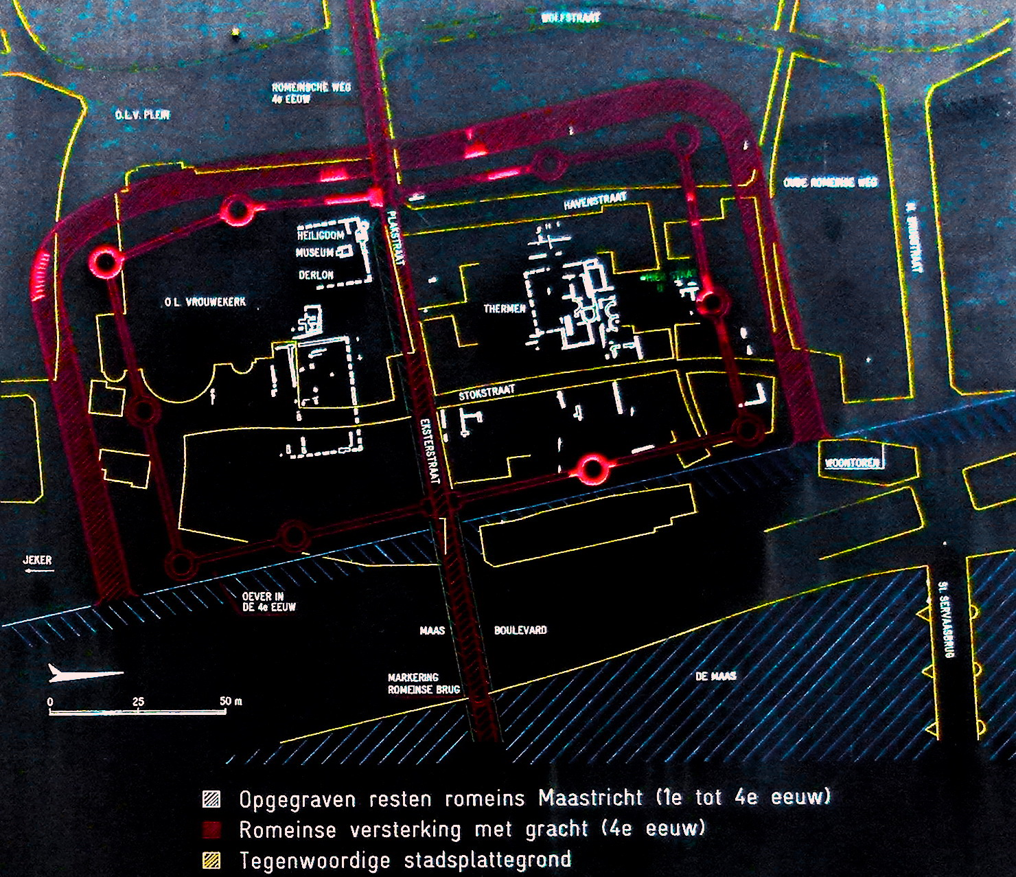 Maastricht, the Netherlands. Ground plan of the Roman castellum built in 333 AD. Detail of an ANWB information panel of Roman remains around Op de Thermen square in the center of Maastricht.